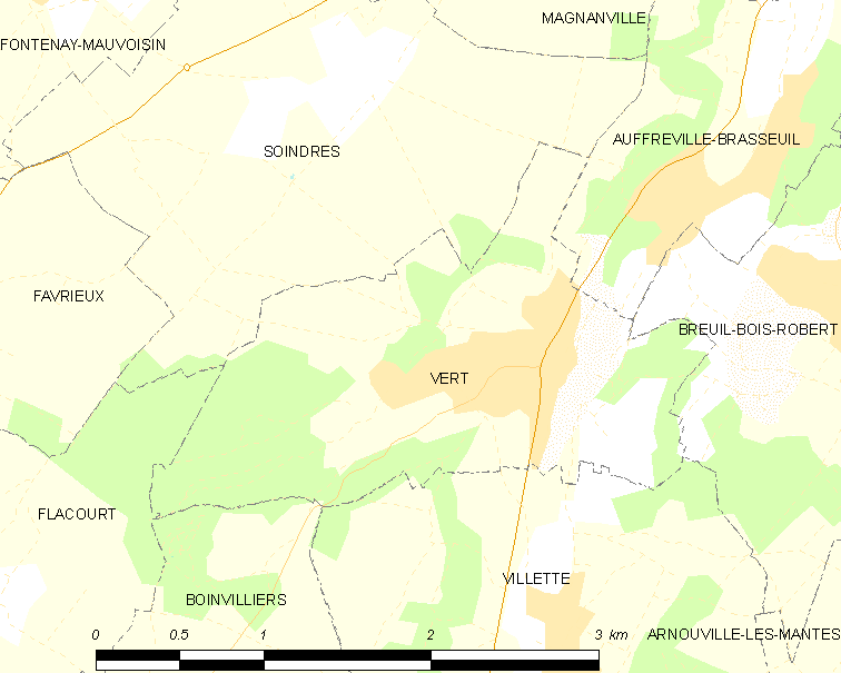 Map of French municipality Vert